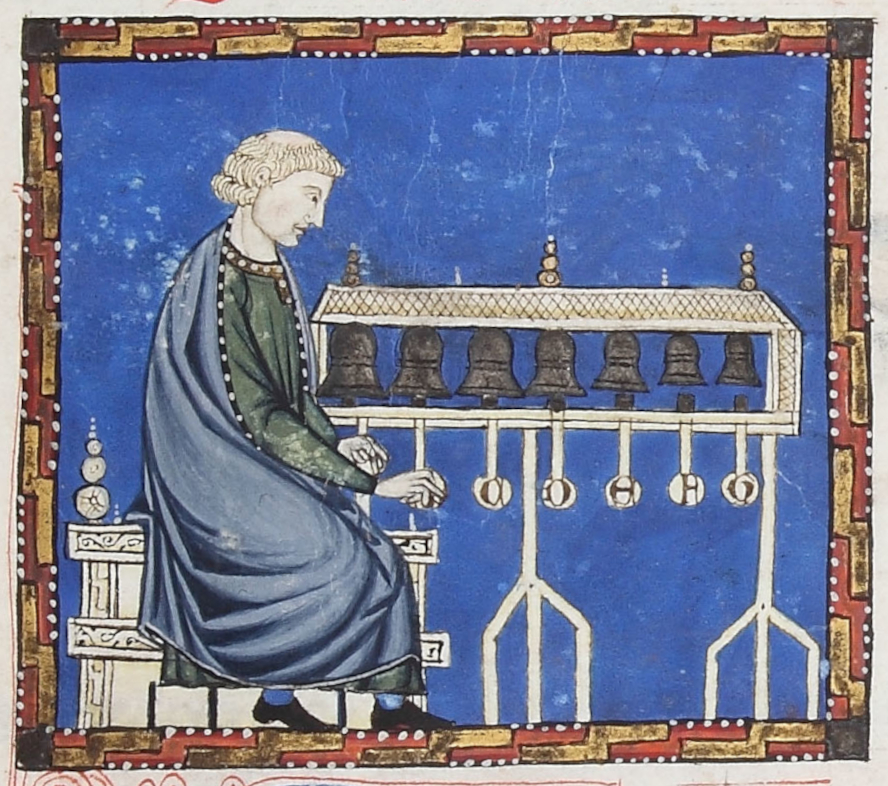 Illustration from the Cantigas de Santa maria depicting musician playing bells